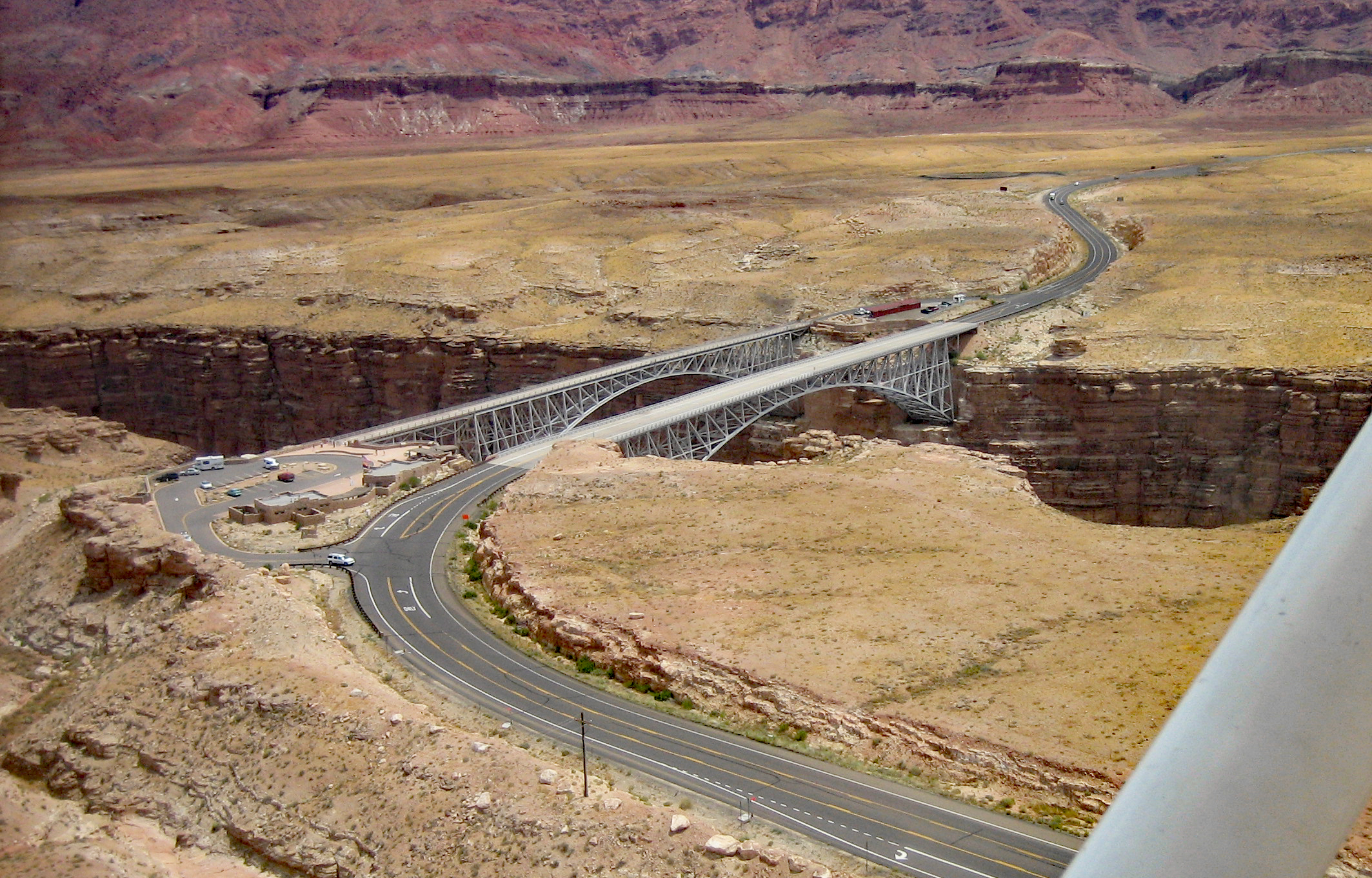 Aerial Photo of Navajo Bridge over Marble Canyon. Newer bridge in foreground.